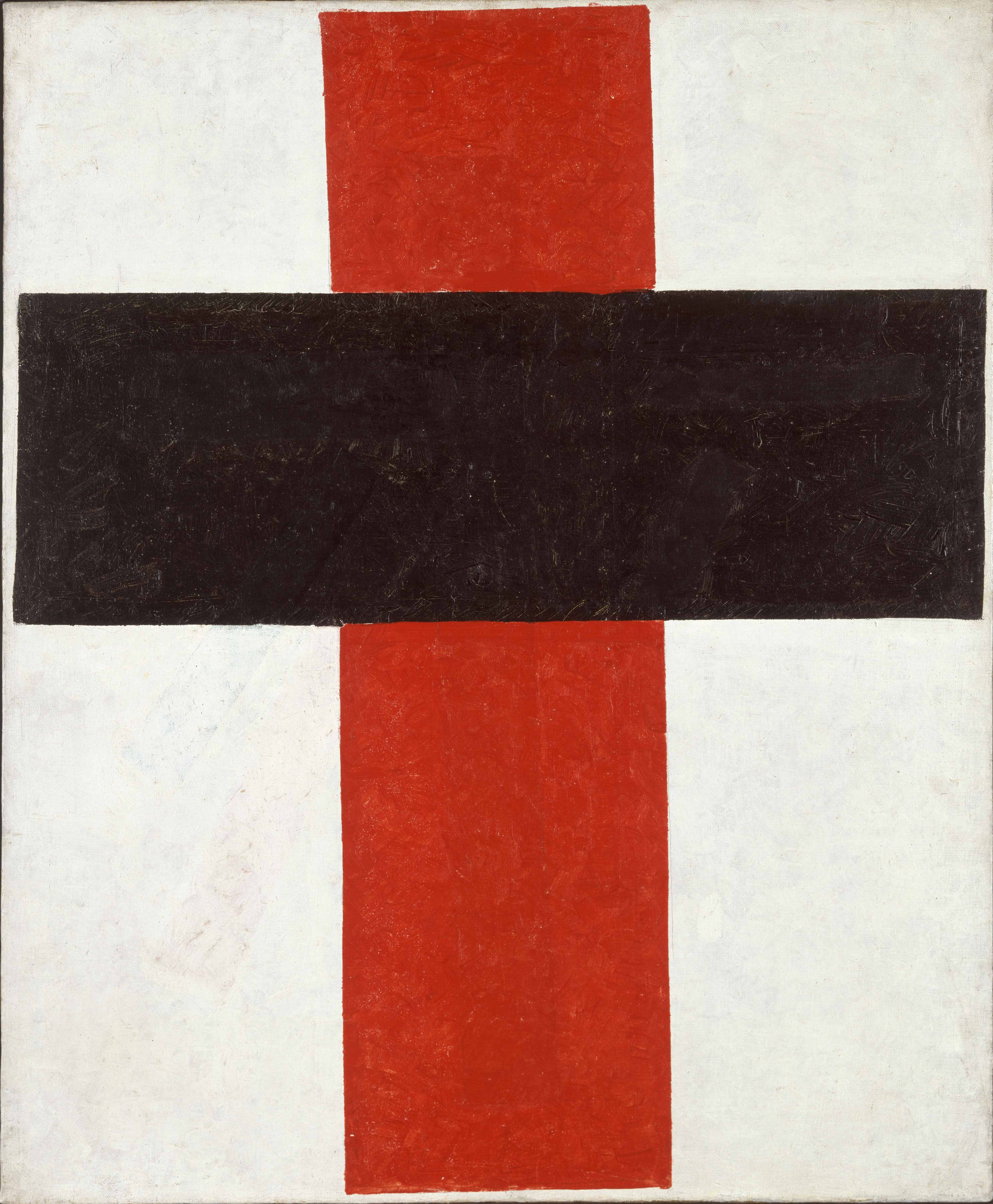 large cross in black over red on white